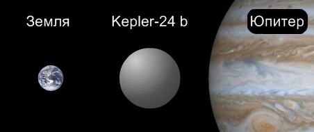 Comparative sizes of Earth, Kepler-24 b and Jupiter.